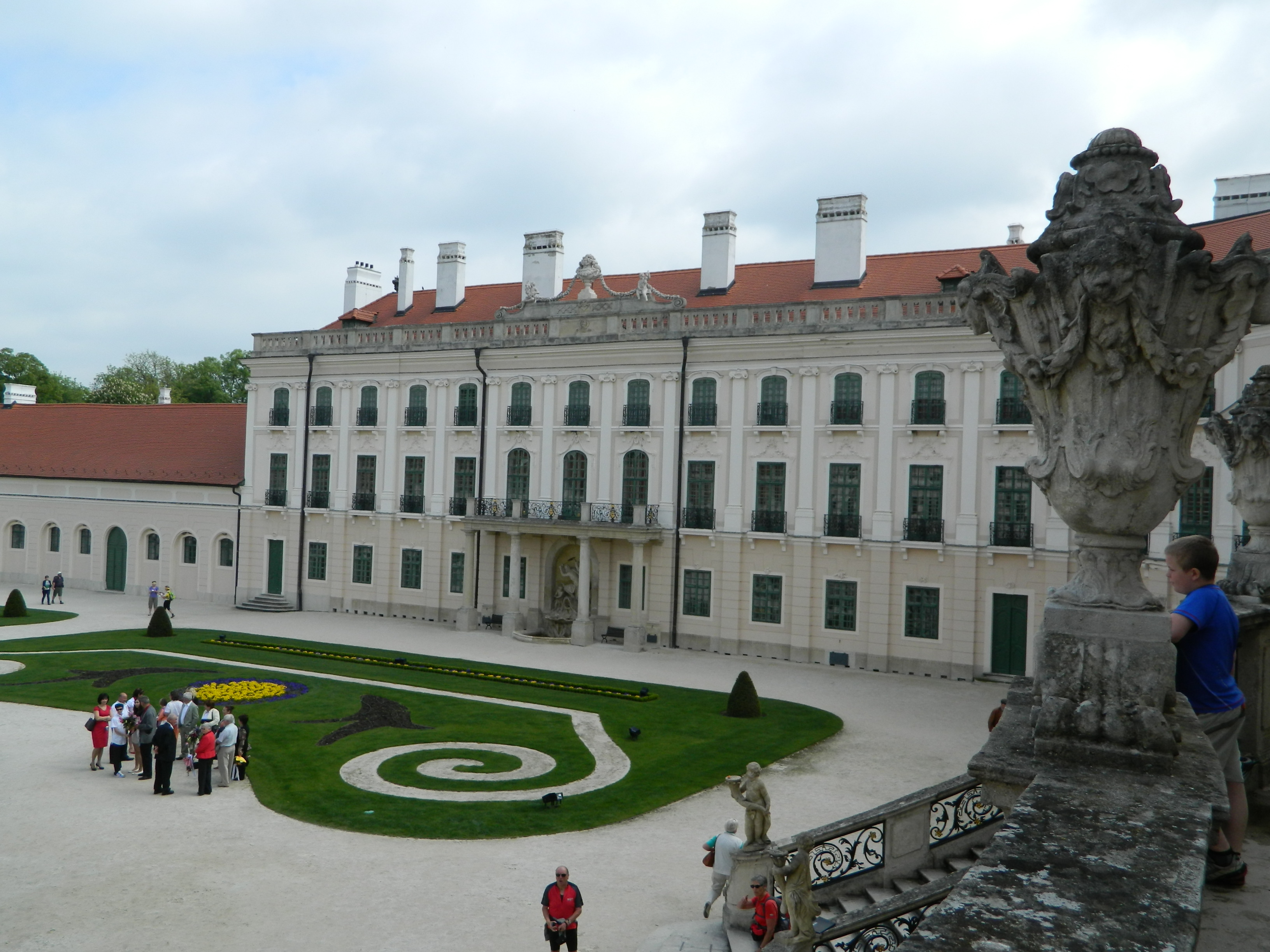 Esterhazy castle - inner court (eastern van), Fertőd This is a photo of a monument in Hungary. Identifier: 4051